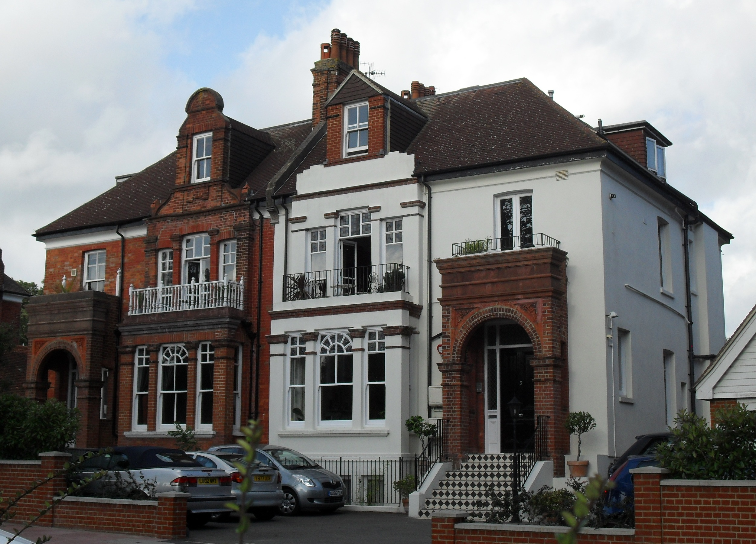 Houses on Preston Park Avenue, Brighton, City of Brighton and Hove, East Sussex, England. Large brick-built semi-detached houses within the "Preston Park" Conservation Area.